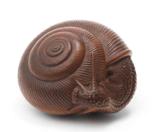 A snail carved in wood by Naitō Toyomasa